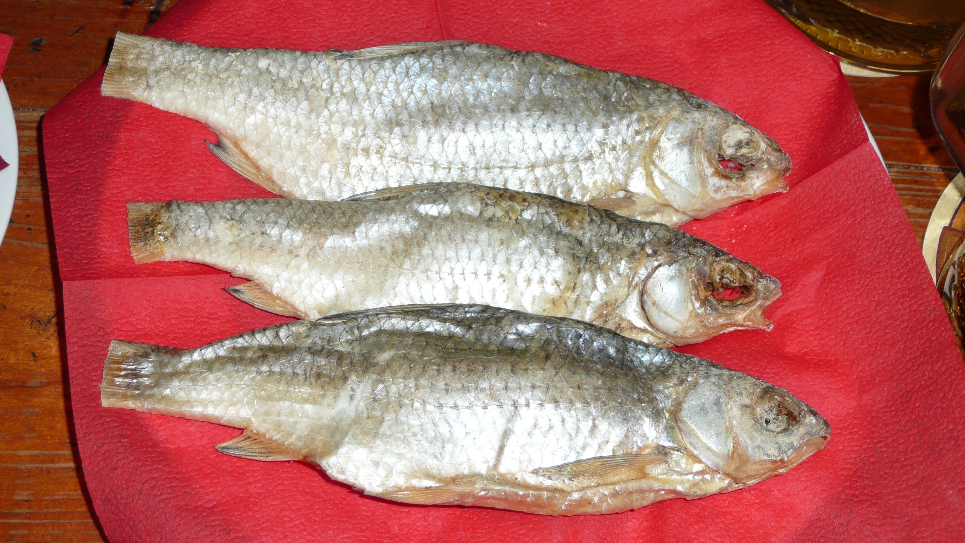 Vobla